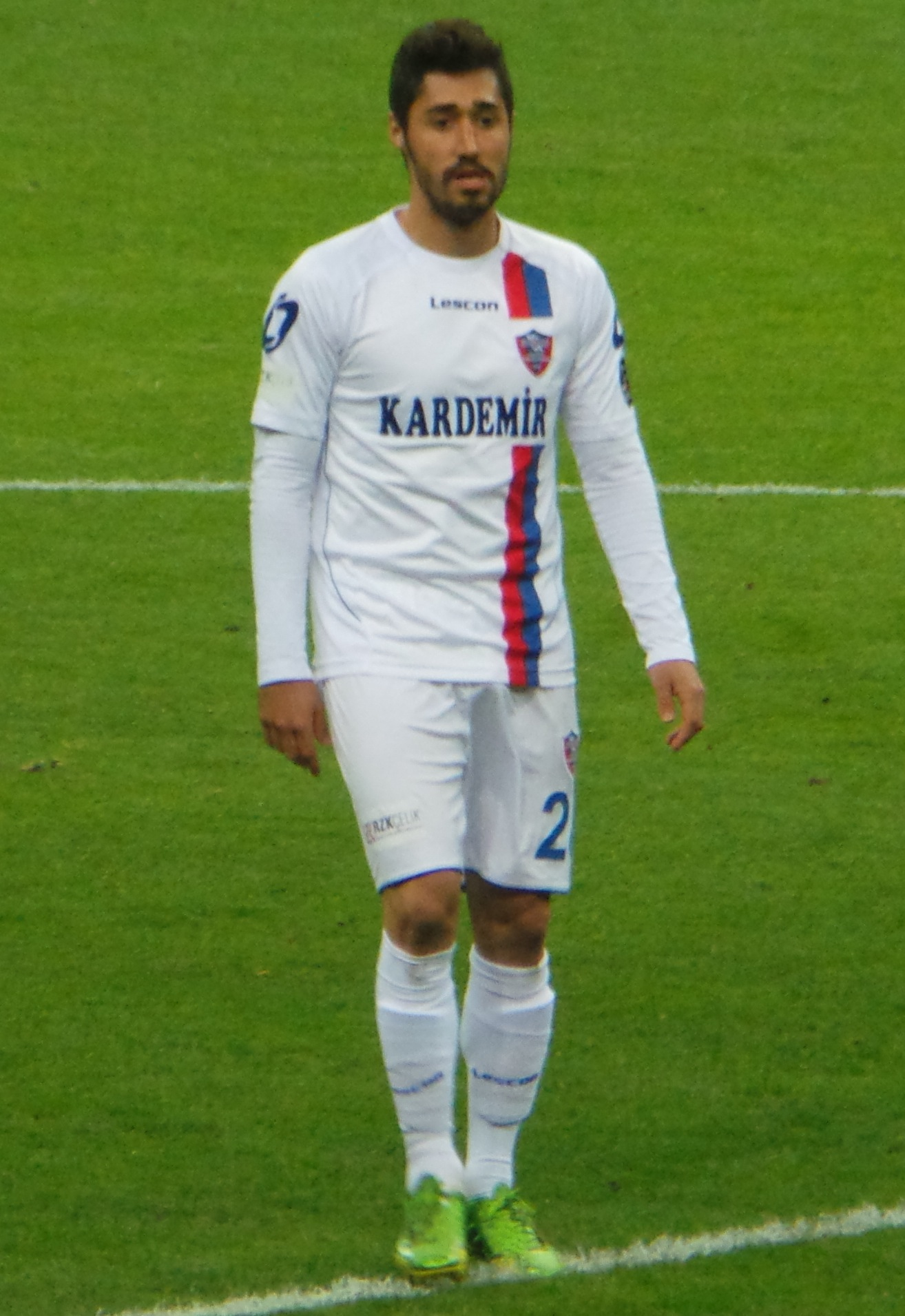 Furkan Özçal with Karabük